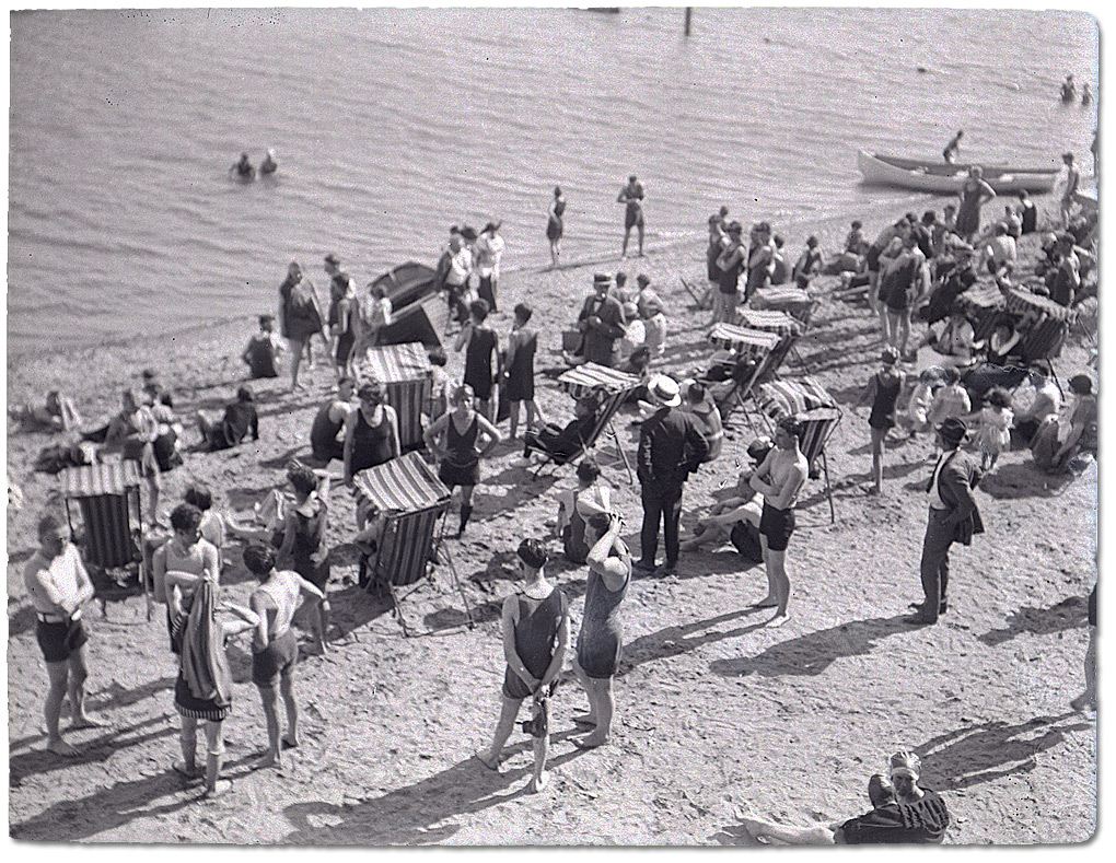 Sunnyside Beach, Toronto, July, 1924